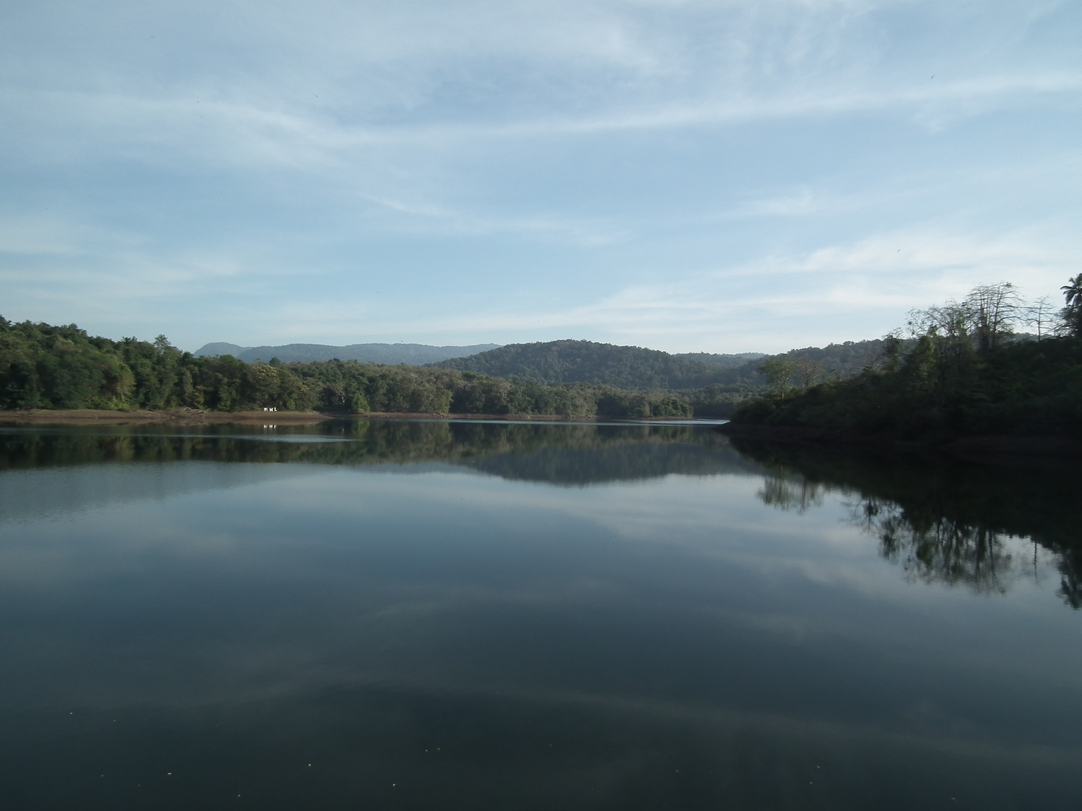 Snap from Peechi Dam area.